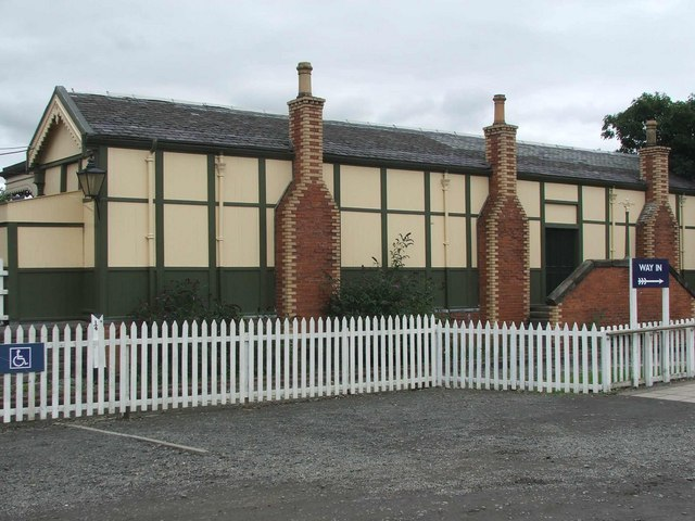 Wormit Station Building This Victorian Station building was carefully removed from Wormit(south of the Tay Bridge)and rebuilt here at the steam preservation site.